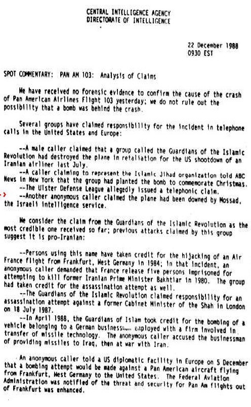 CIA document analyzing claims of responsibility for bombing of Pam Am flight 103. It includes reference to a warning from an anonymous caller weeks earlier that a bombing attempt would soon be made on a Pam Am flight.